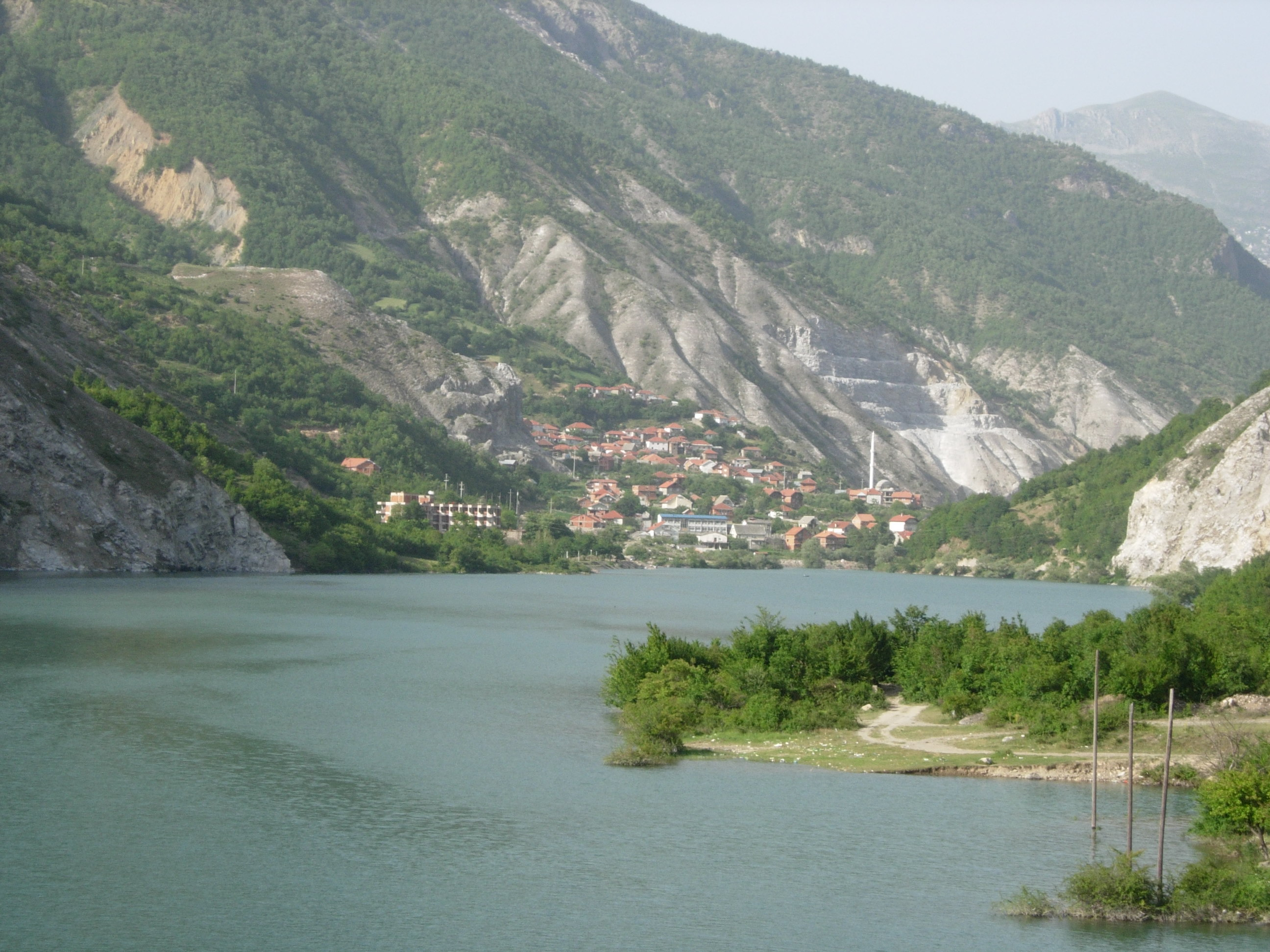 Radika River near the village of Dolno Kosovrasti in the Republic of Macedonia.